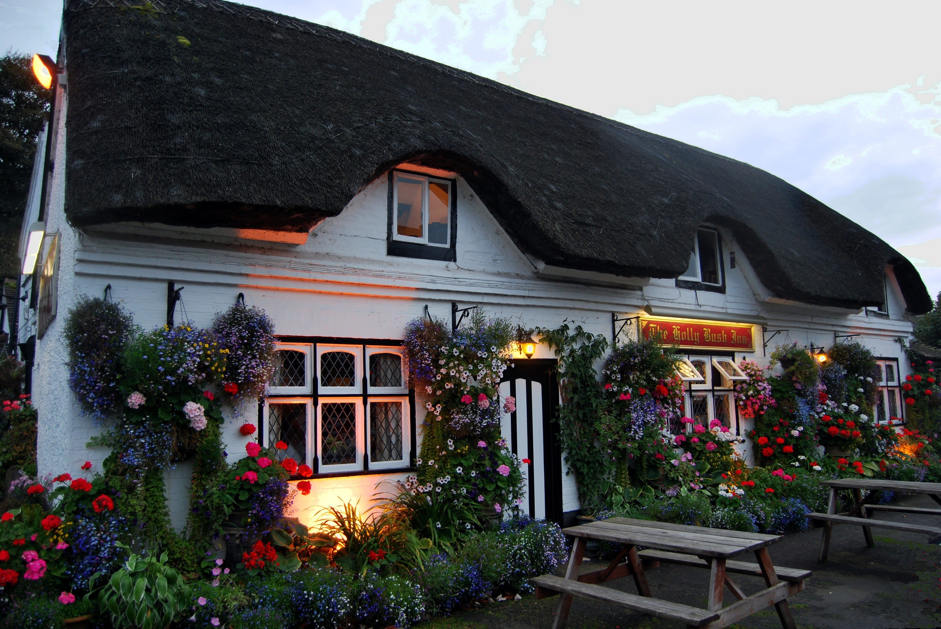 The Hooly Bush Inn Salt near Stafford